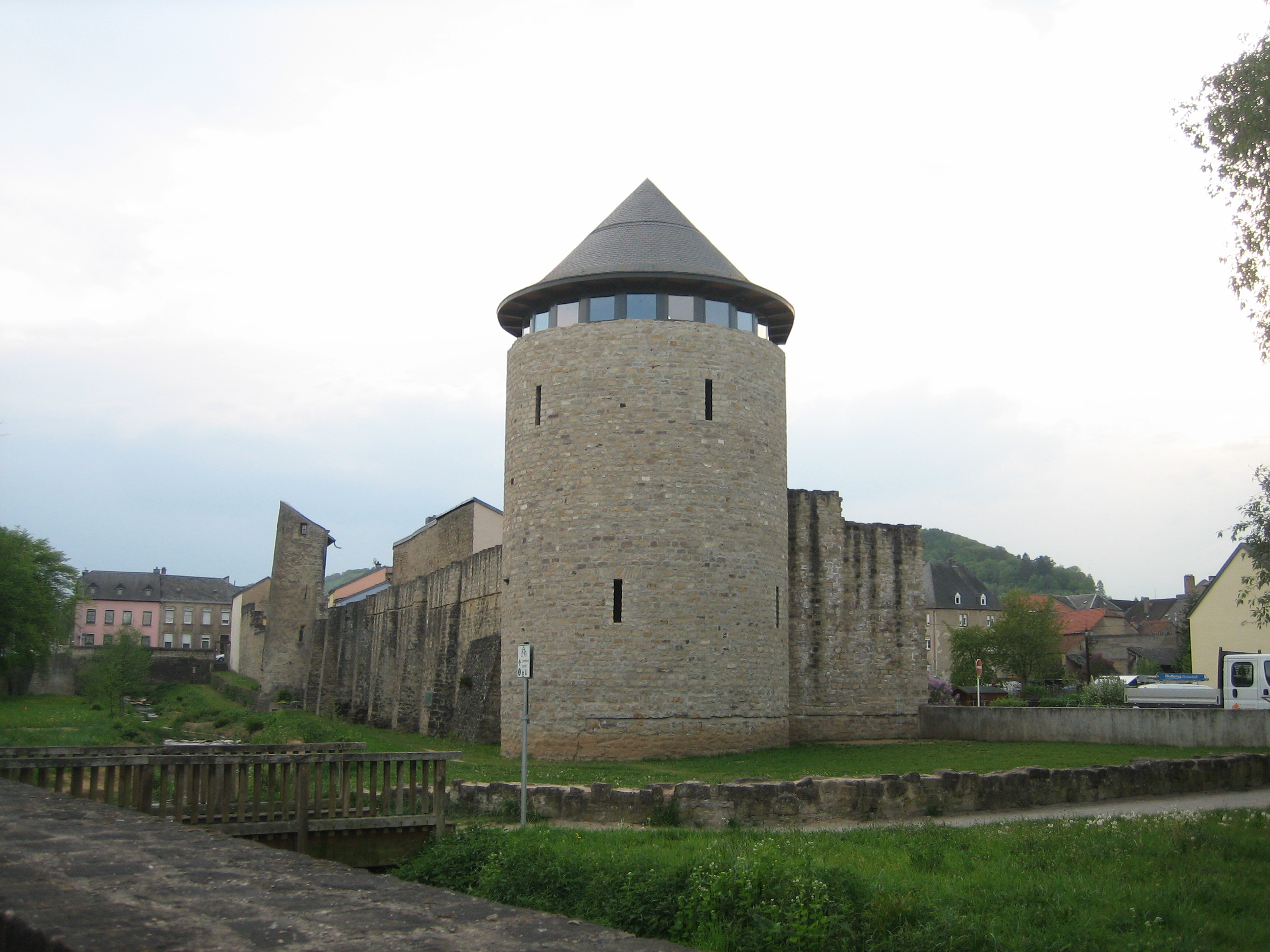 City walls and renovated/rebuild watchtowers (now homes) in Echternach, Luxembourg. Classified National Monument 4 March 1936.